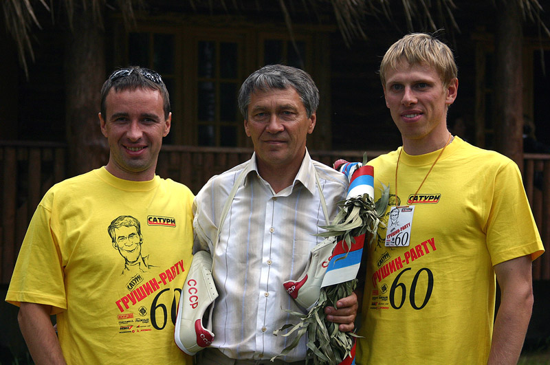 Sergei Krianin, Aleksandr Grushin, Michail Ivanov